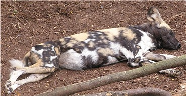 An African Hunting Dog (Lycaon pictus). The photo was taken by User:Jcwf, and originally uploaded to Afbeelding:Procyon.jpg. See Benutzer_Diskussion:Baldhur/Archiv#Jcwf.nl, where Jcwf indicates all his photos are GFDL.